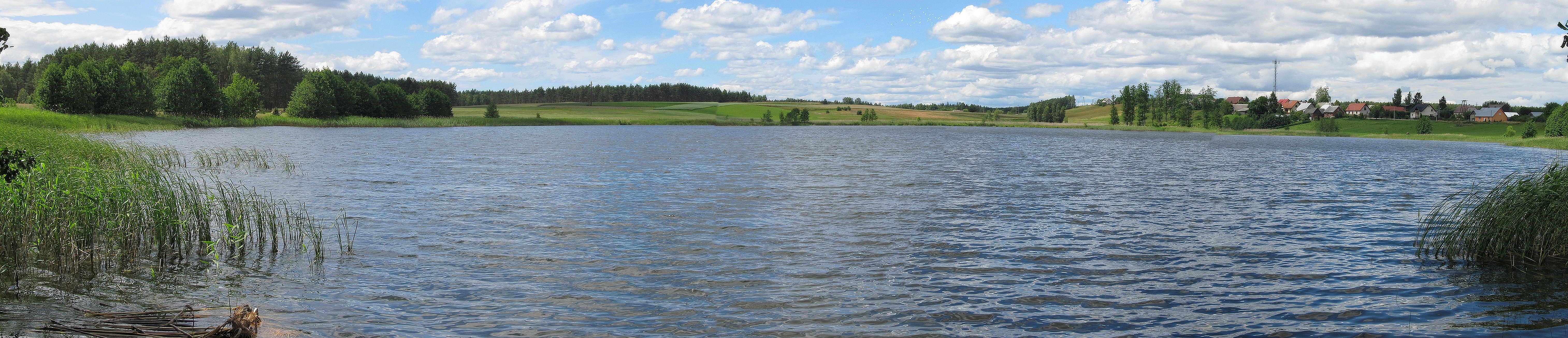 Lubiki, is a village located in the municipality of Czarna Woda, until recently part of the city.